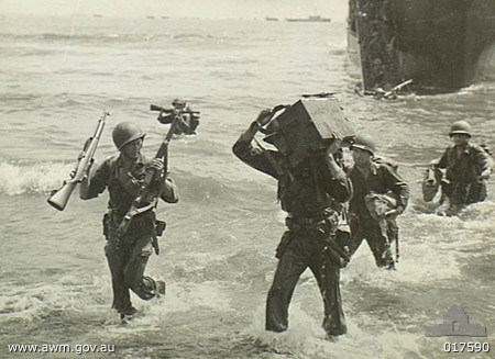 AWM image 017590. US Army soldiers wading ashore from deep water during the landing at Morotai.